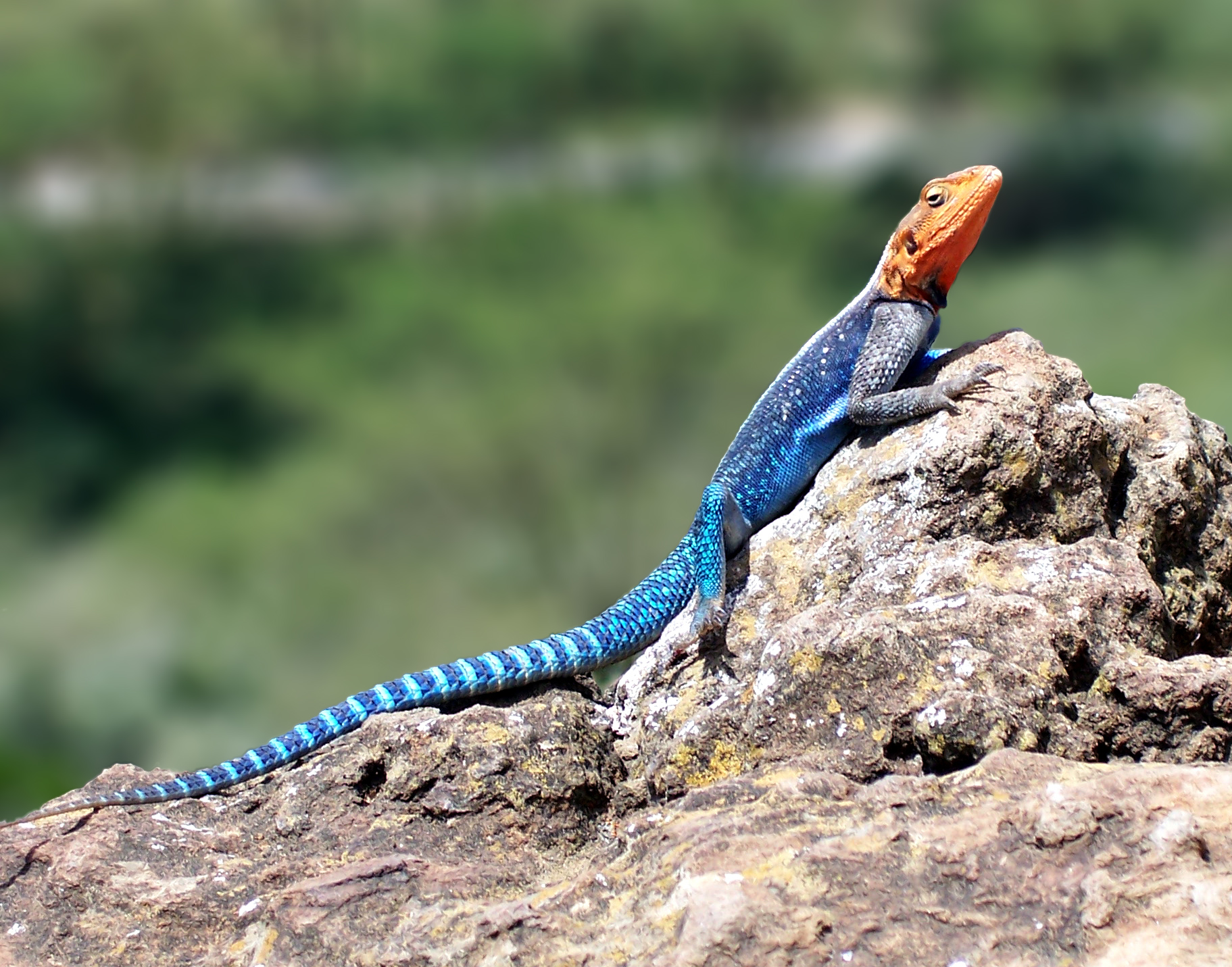 Male Red-headed Rock Agama (Agama agama) taken in August 2005, in Lake Nakuru National Park, Kenya